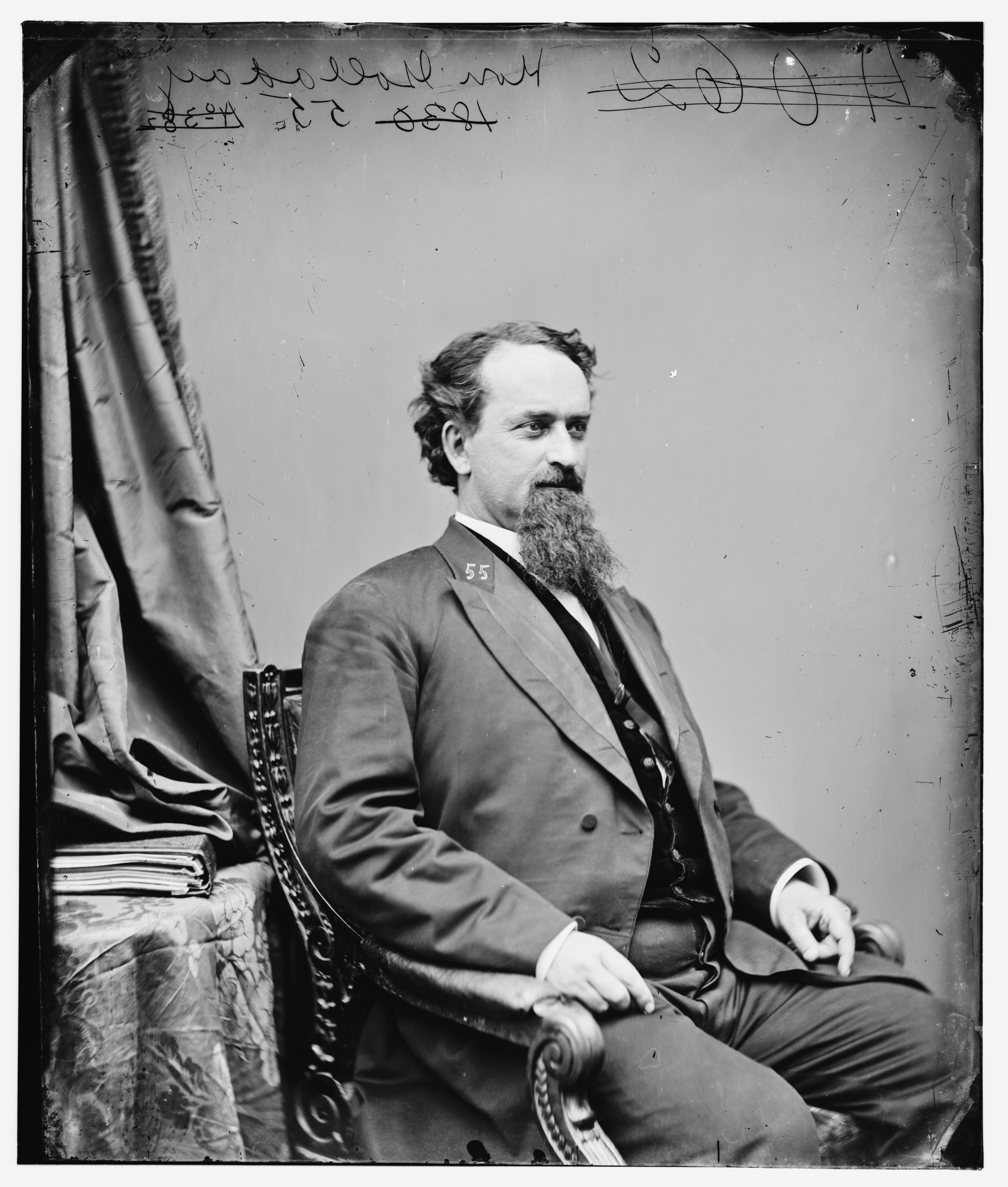 Tennessee Congressman Edward Golladay